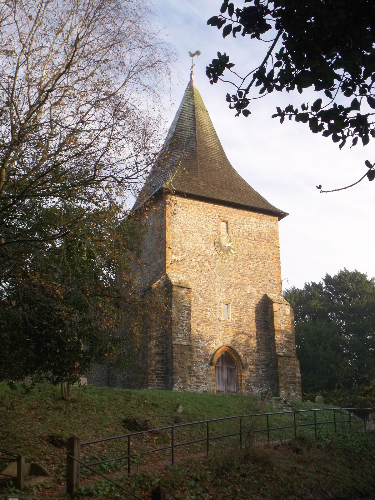 West tower of St Laurence's parish church, Catsfield, East Sussex, seen from the west